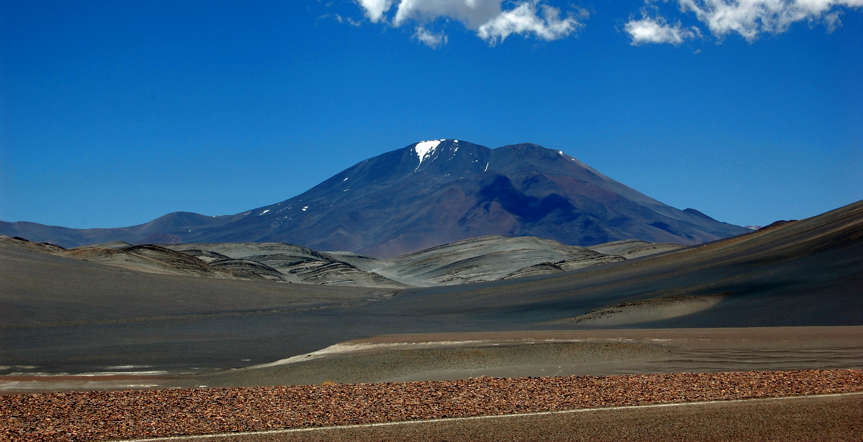 View at the Incahuasi volcan from the route 60, Fiambala, Argentina